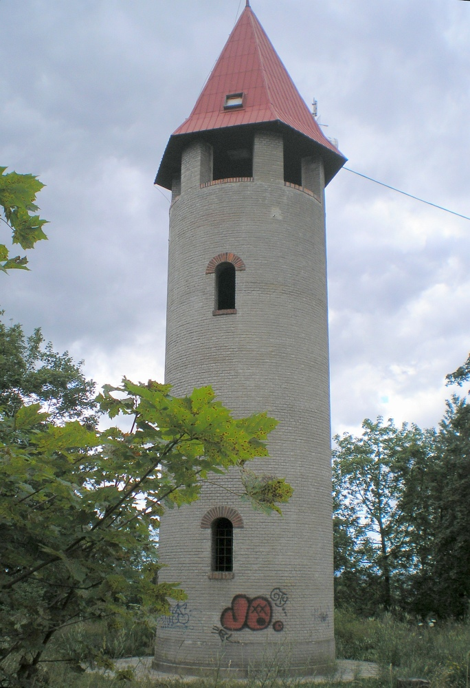 Bohušův vrch lookout tower in Planá, Tachov District, Czech Republic.